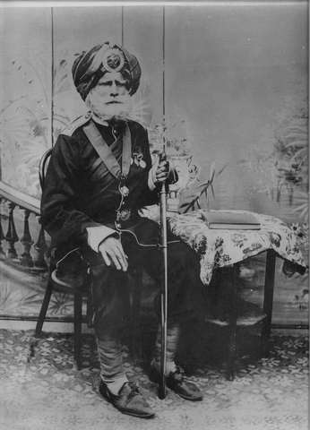 Honorary Captain Subedar Major, Sardar Bahadur, Sardar Lehna Singh, O.B.I. 1st Class, 45th Rattray's Sikhs at the Corination of King George V, Delhi Durbar of 1911.